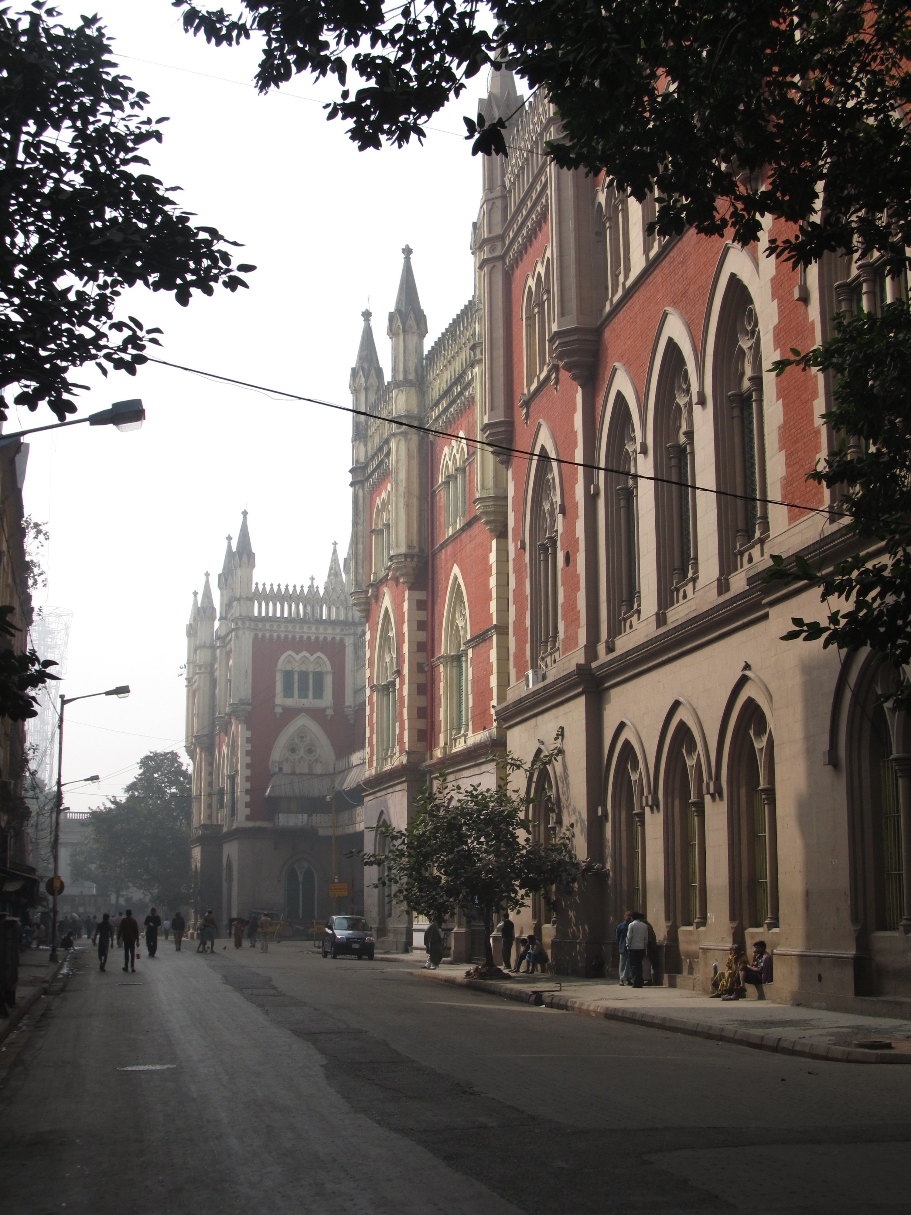 The Calcutta High Court formerly known as the High Court of Judicature at Fort William is the oldest High Court in India. It was established on 1st July, 1862 under the High Court’s Act, 1861. It has jurisdiction over the state of West Bengal and the Union Territory of the Andaman and Nicobar Islands. The High Court building was designed by Mr. Walter Granville, Government Architect, on the model of the ‘Stadt-Haus’ or Cloth Hall at Ypres in Belgium. The Calcutta High Court has the distinction of being the first High Court and one of the three Chartered High Courts to be set up in India, along with the High Courts of Bombay, Madras.